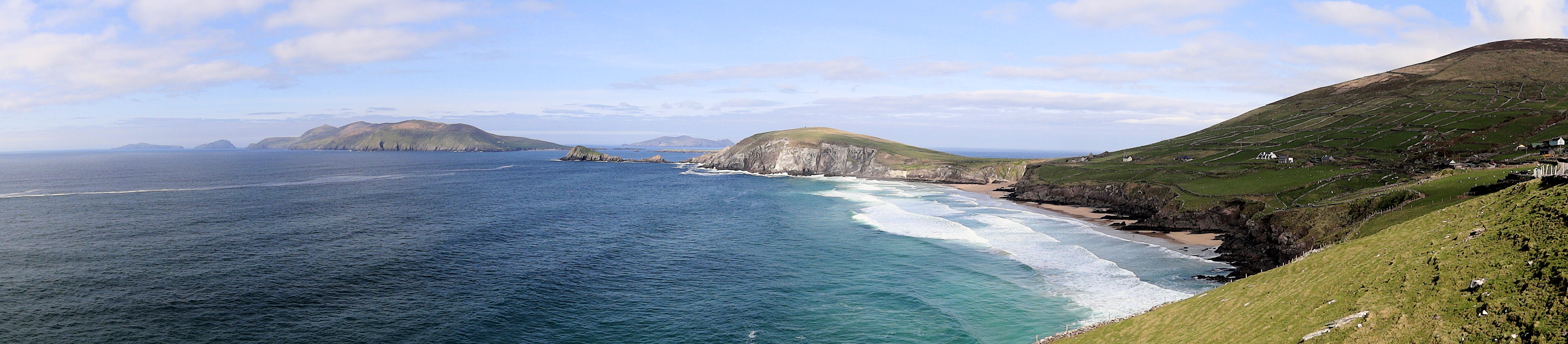 A view from the road around Slea Head towards Dunmore Head and the Blasket Islands